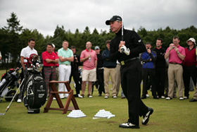 Gary Player Swings during the golf clinic at the 2009 Gary Player Invitational held in Edinburgh, Scotland.